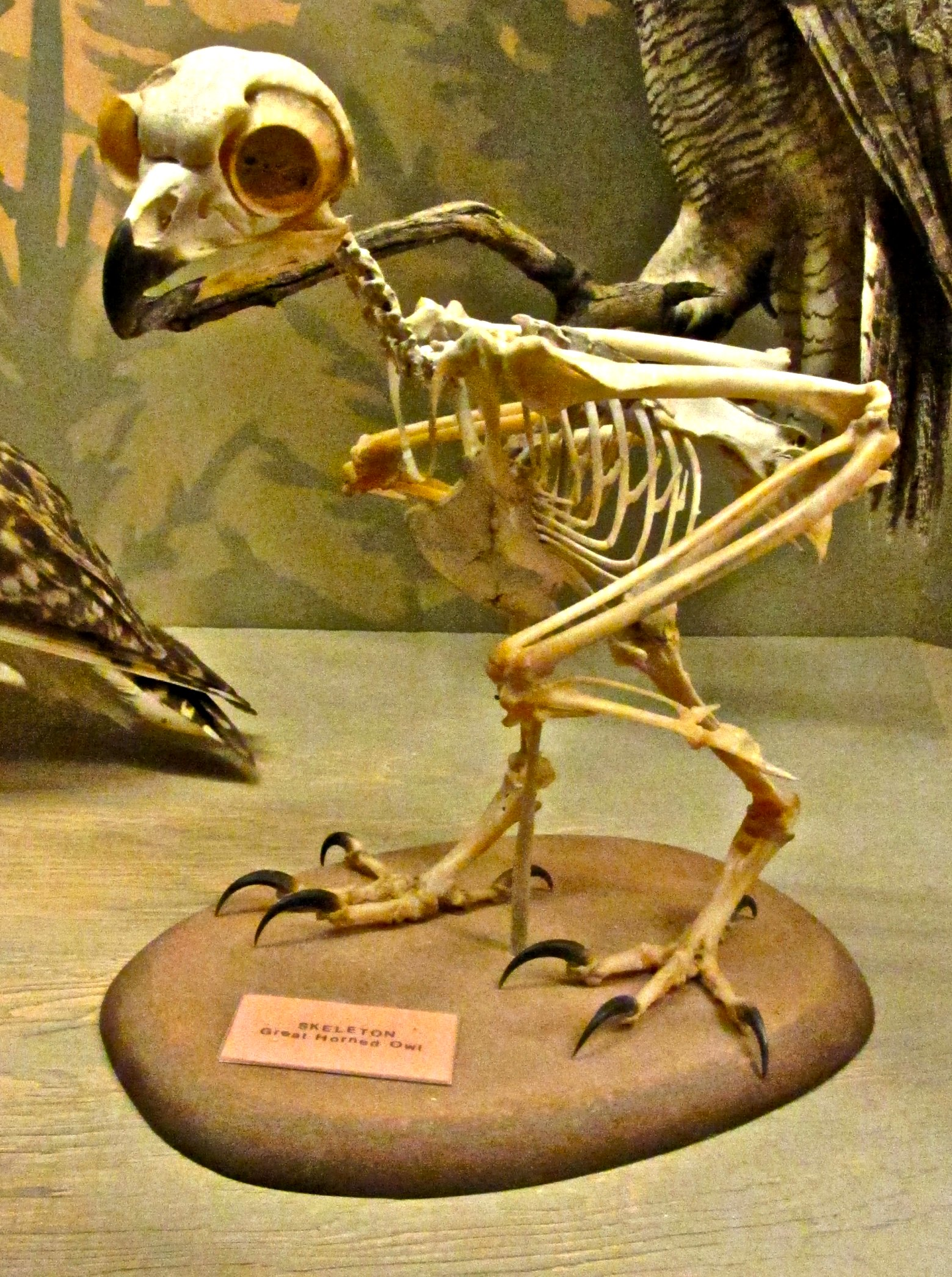 Skeleton of a Great Horned Owl